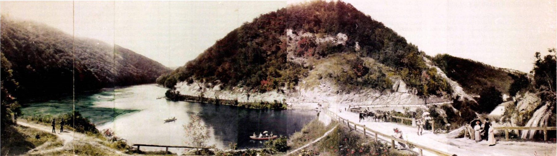 Váncza Emma made this Lillafüred panorama photo in 1896